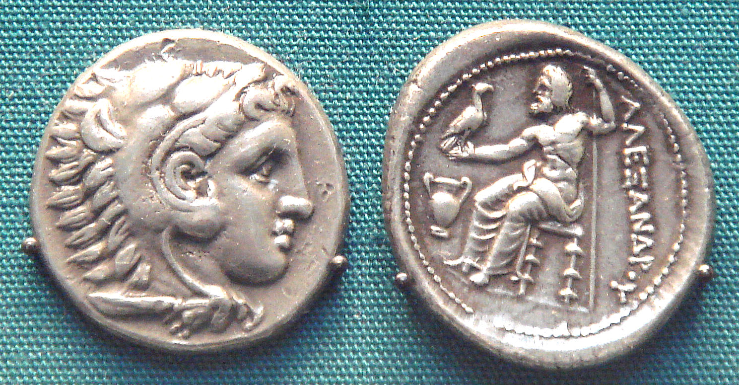 Coin of Alexander the Great, III